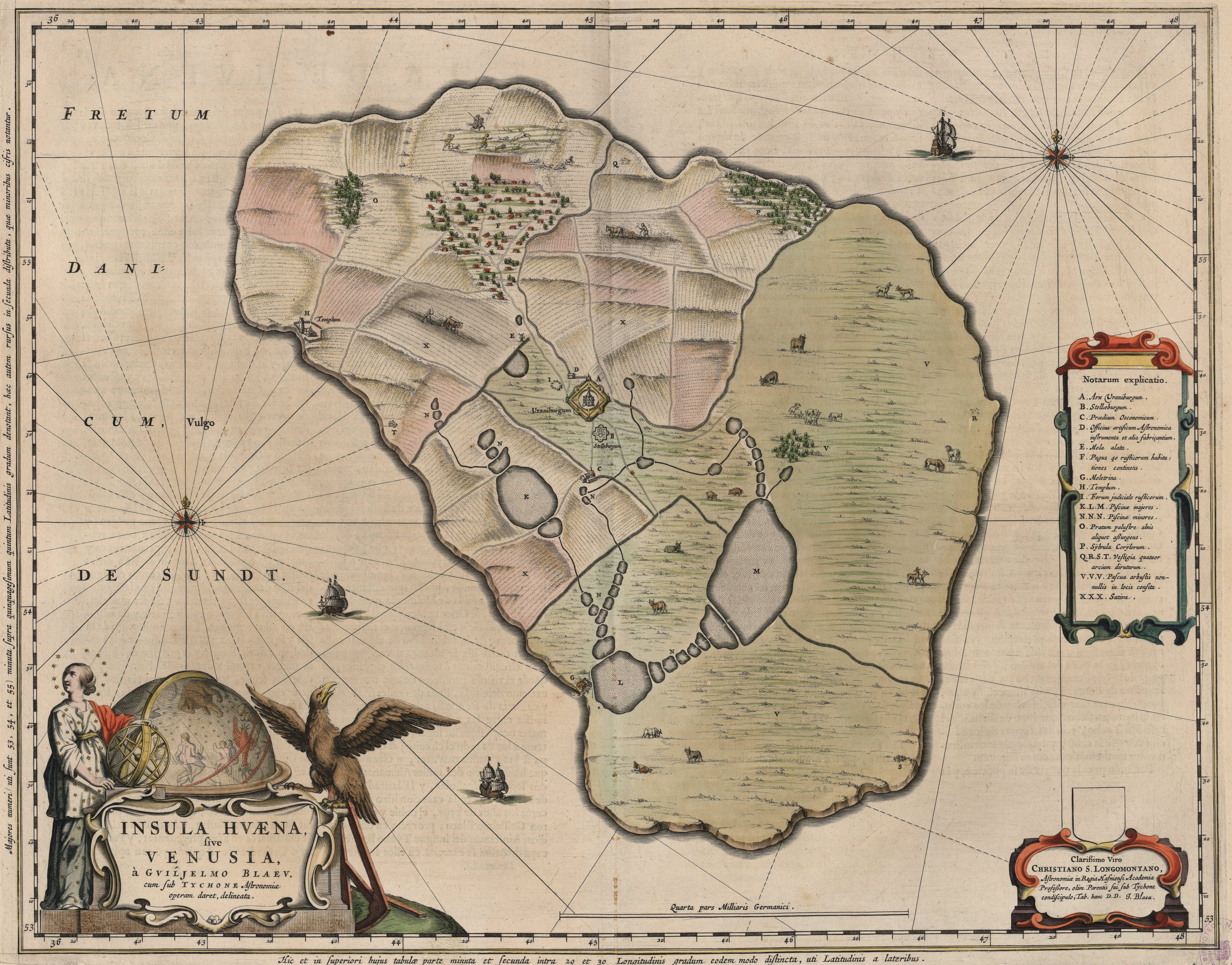 Map of the island of Hven from a copper etching of Willem Janszoon Blaeu's Blaeu Atlas 1663. Willem made this map based on his experience as a student of Tycho Brahe between 1594 and 1596. On this map North is up, Denmark to the west and Scania, now part of Sweden, to the east. It shows the location of Uraniborg just above the centre, and below the linked set of ponds that Tycho had created to both collect water and power his papermill and other small industries on the island. Name of map : INSULAE HVAENA Cartographer : Johannes Blaeu Area displayed : Island of Hven Map record source: Biblioteca Nacionale Espana (click on "View Digital object" to browse from the first page down to "GMG/189/177/mapa") (1664 is date of atlas on title page at "GMG/189/5/hg-ilustracionr") vorige upload: Originally uploaded on English Wikipedia by User:Wikibob.